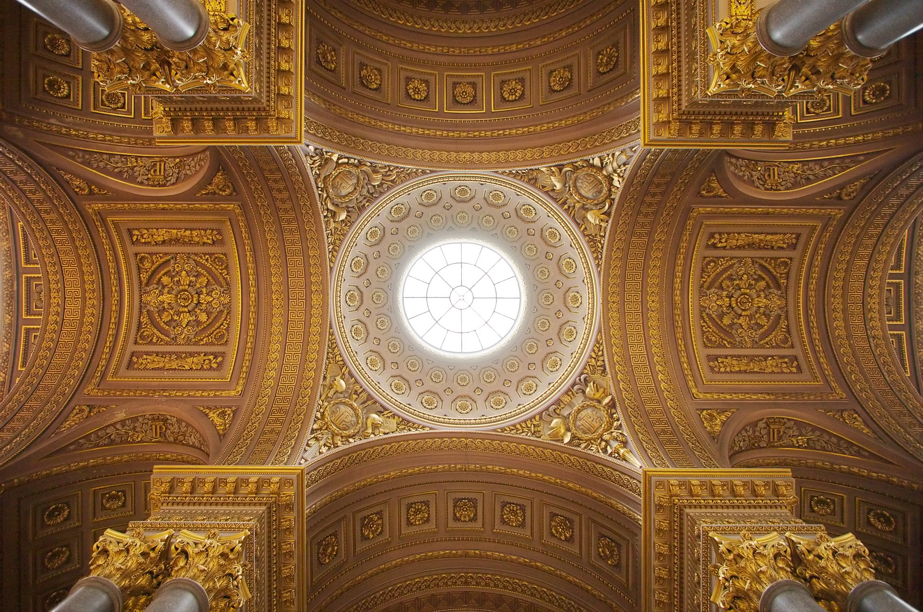 Central part of the ceiling of the Galerie des Batailles at the Palace of Versailles.